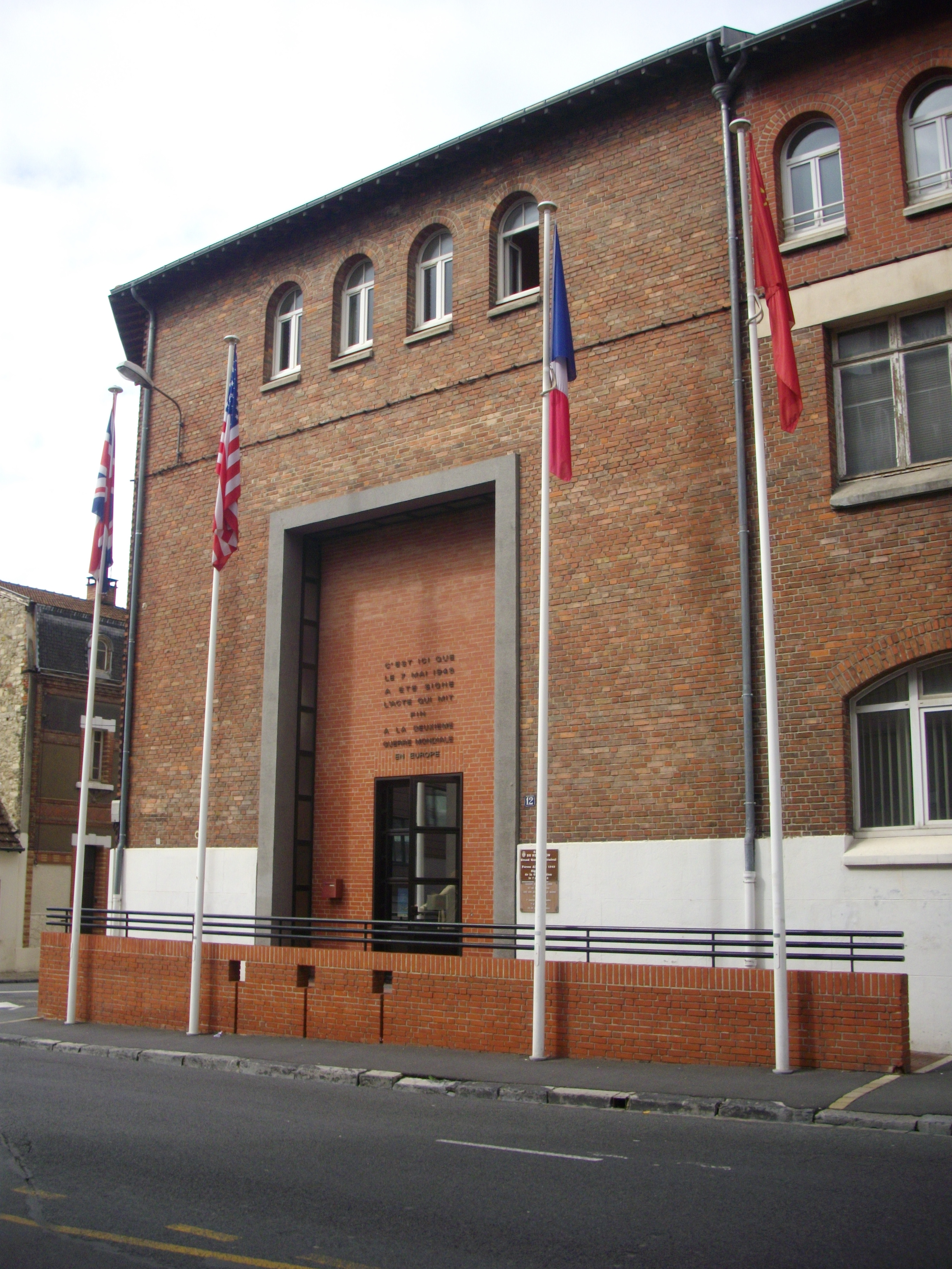 Surrender museum in Reims (Marne, France) .